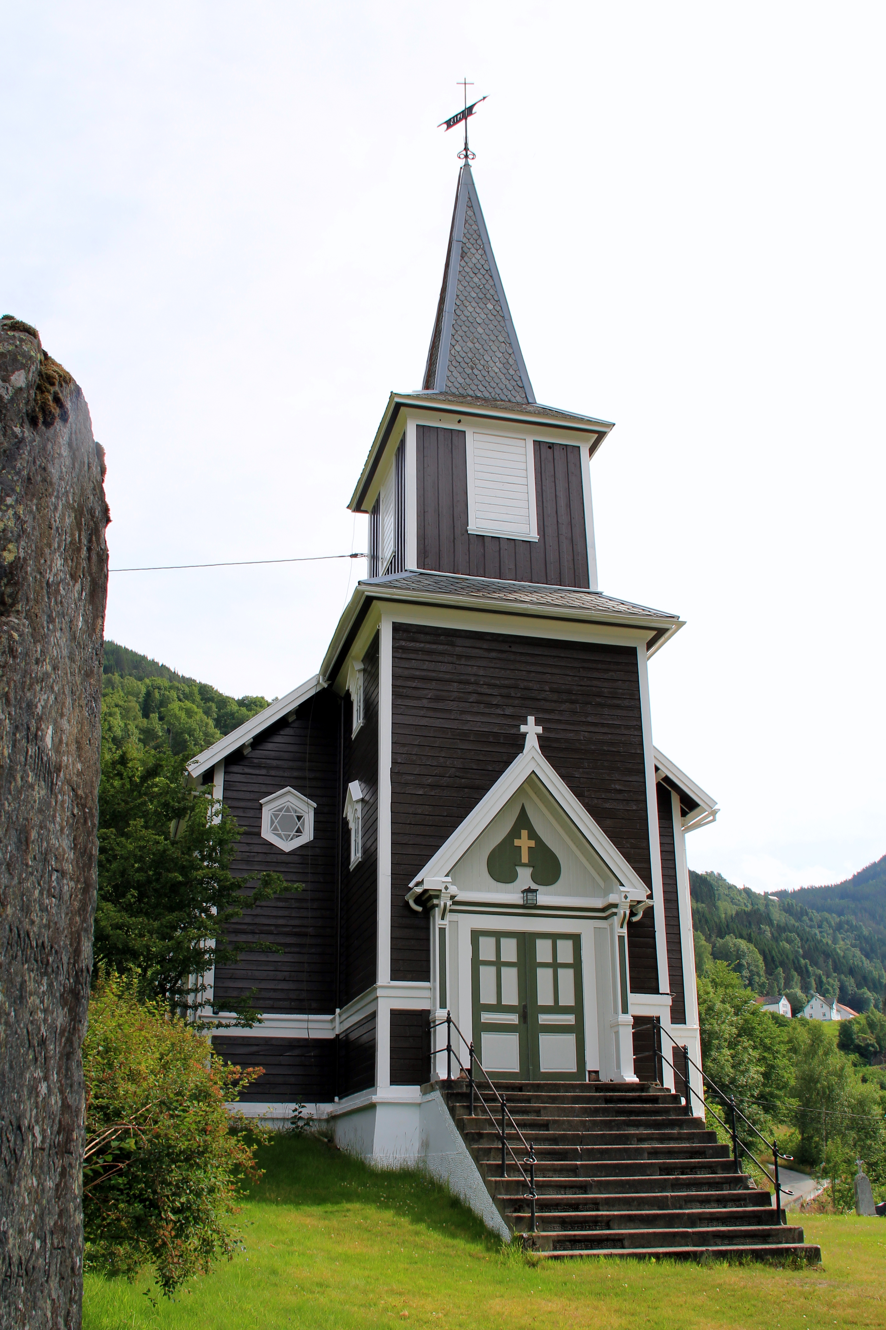 Randabygd kirke